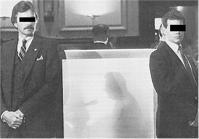 Four U.S. Marshal Witness Security Inspectors protecting a witness testifying in a court hearing.